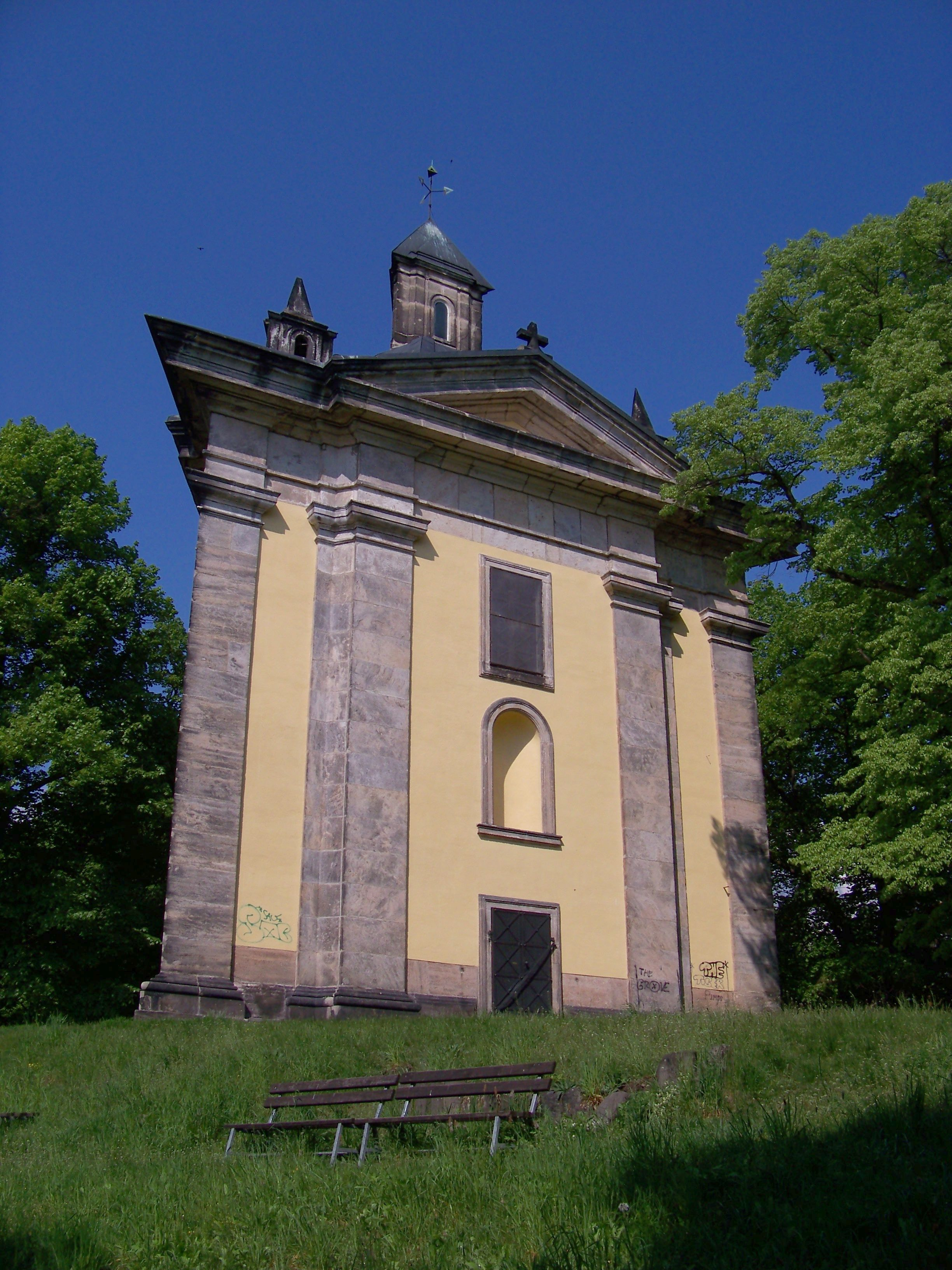 Chlumec, Ústí nad Labem District, Ústí nad Labem Region, Czech Republic. Horka hill, Holy Trinity chapel.